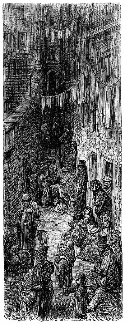 Orange Court, from «London: A Pilgrimage» (1872)